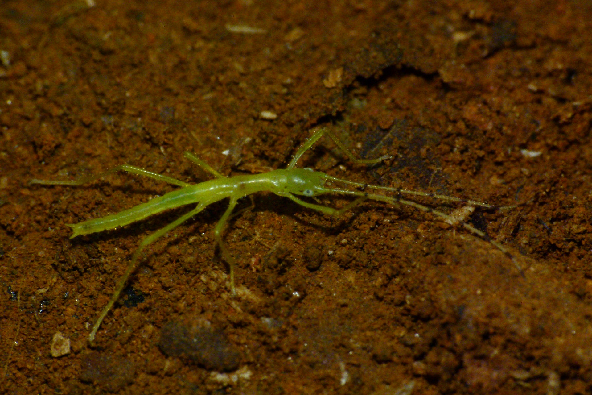 A stick insect nymph. Probably Phoebaticus sp. Wynaad, India